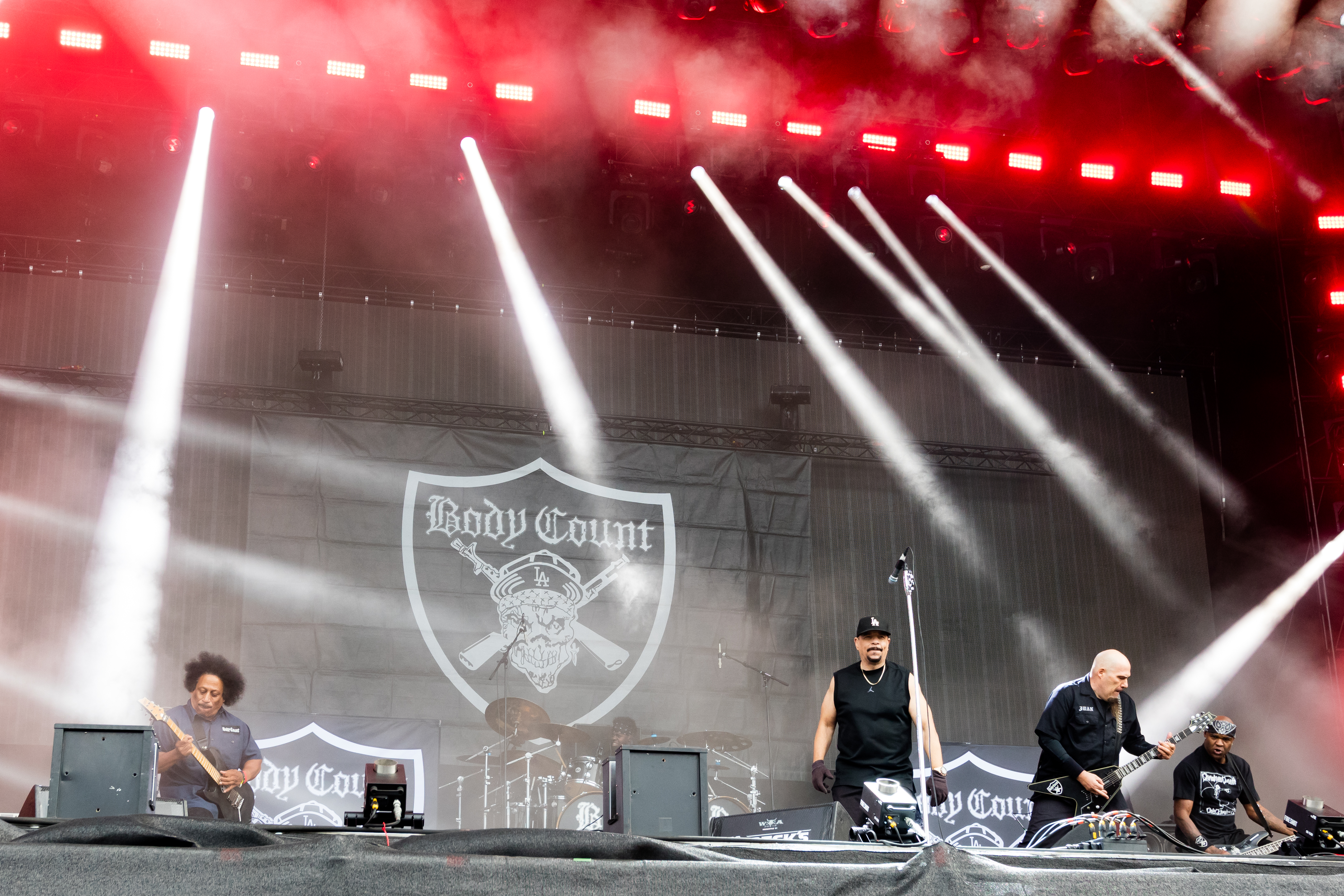 Body Count feat. Ice-T during Wacken Open Air at The Holy Wacken Land, Wacken, Schleswig-Holstein, Germany on 2019-08-02, Photo: Sven Mandel